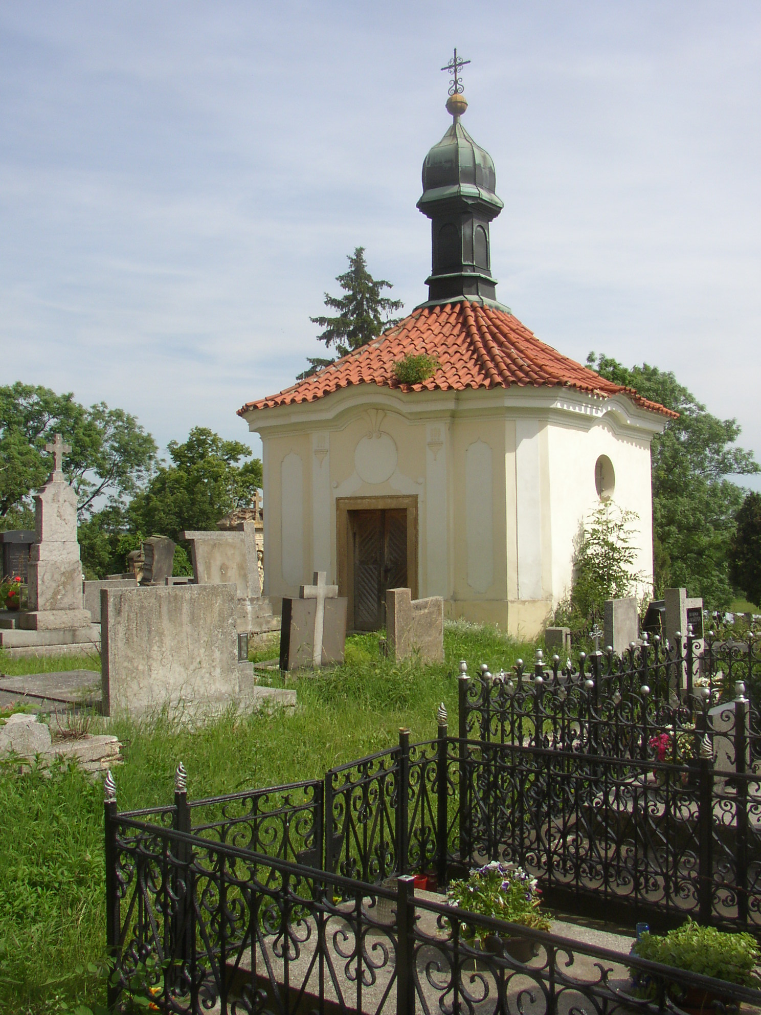 Graveyard chapel from 1745 next to St James the Great church in Tachlovice, Czech Republic.